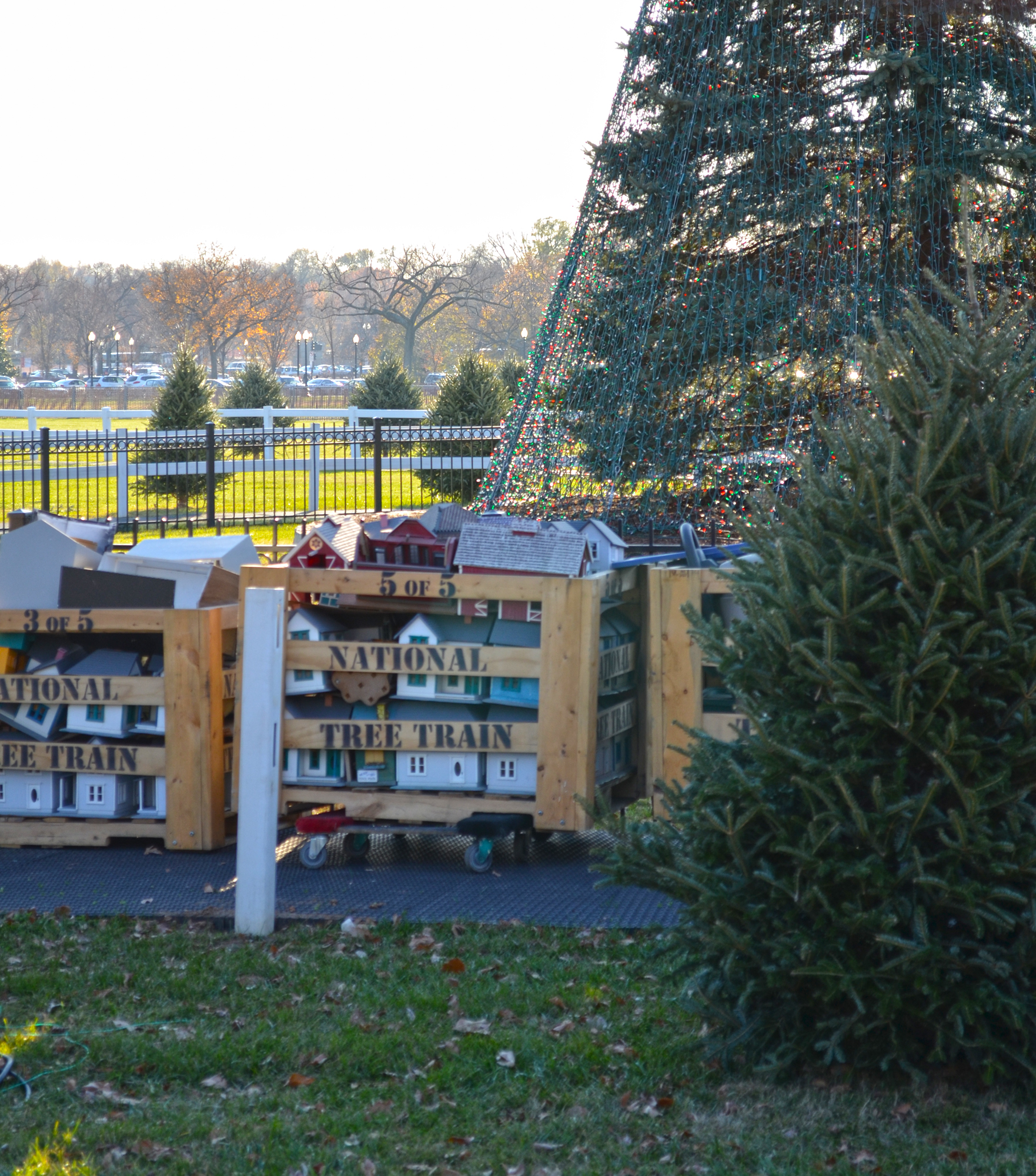 Wooden crates containing the model train which will be installed as part of the Pageant of Peace around the U.S. National Christmas Tree. The extensive train set and villages, which are donated and maintained by model railroad fans, sit around the base of the tree. The U.S. National Christmas Tree grows on The Ellipse, part of the President's Park in Washington, D.C., in the United States.